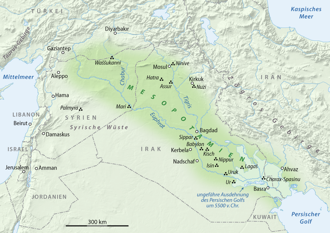 Map of Mesopotamia